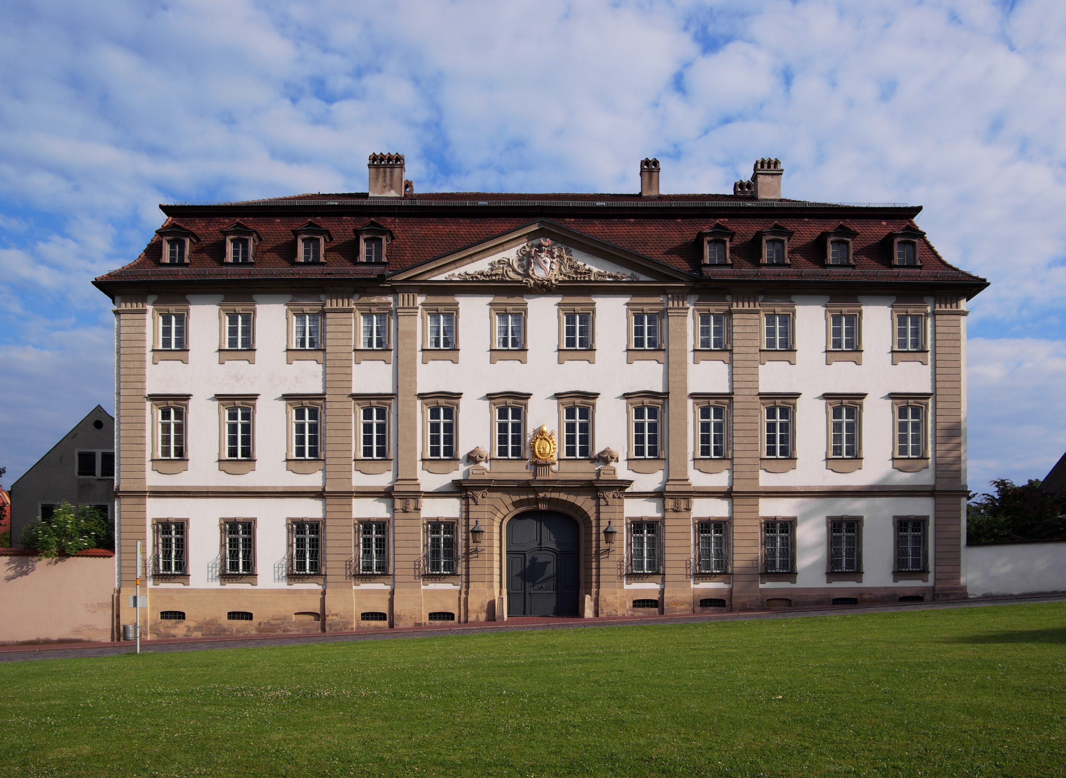 Germany, Bamberg, Curia St. Pauli